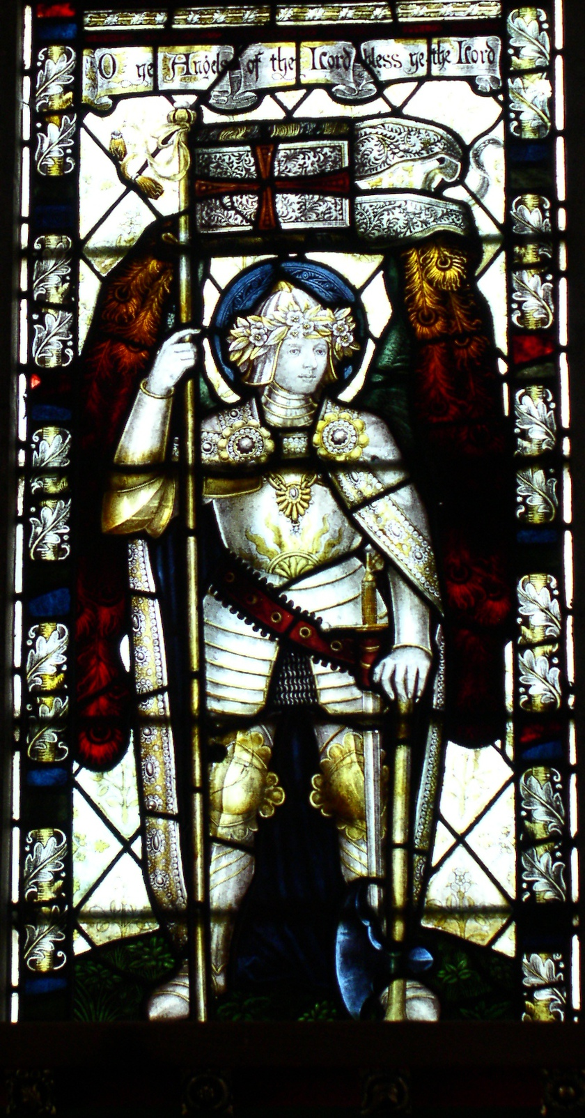 A details of the East Window of St Michael and All Angels Church, Partridge Green, West Sussex. It shows the saint to whom the church is dedicated, Michael the Archangel.